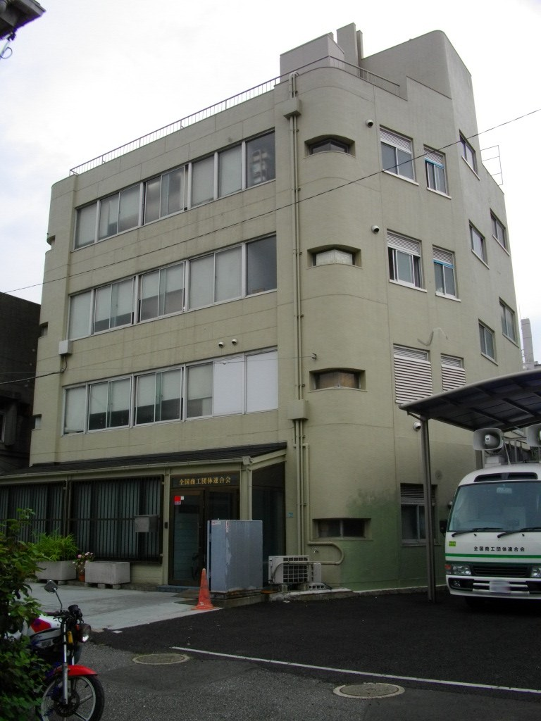 Zenshoren(All-Japan Commerce and Industry Organization Association) Hall